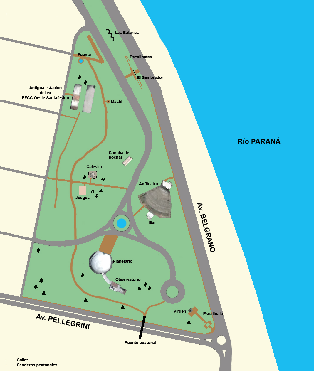 Esquematic map of the Urquiza Park, in the city of Rosario, Santa Fe, Argentina.